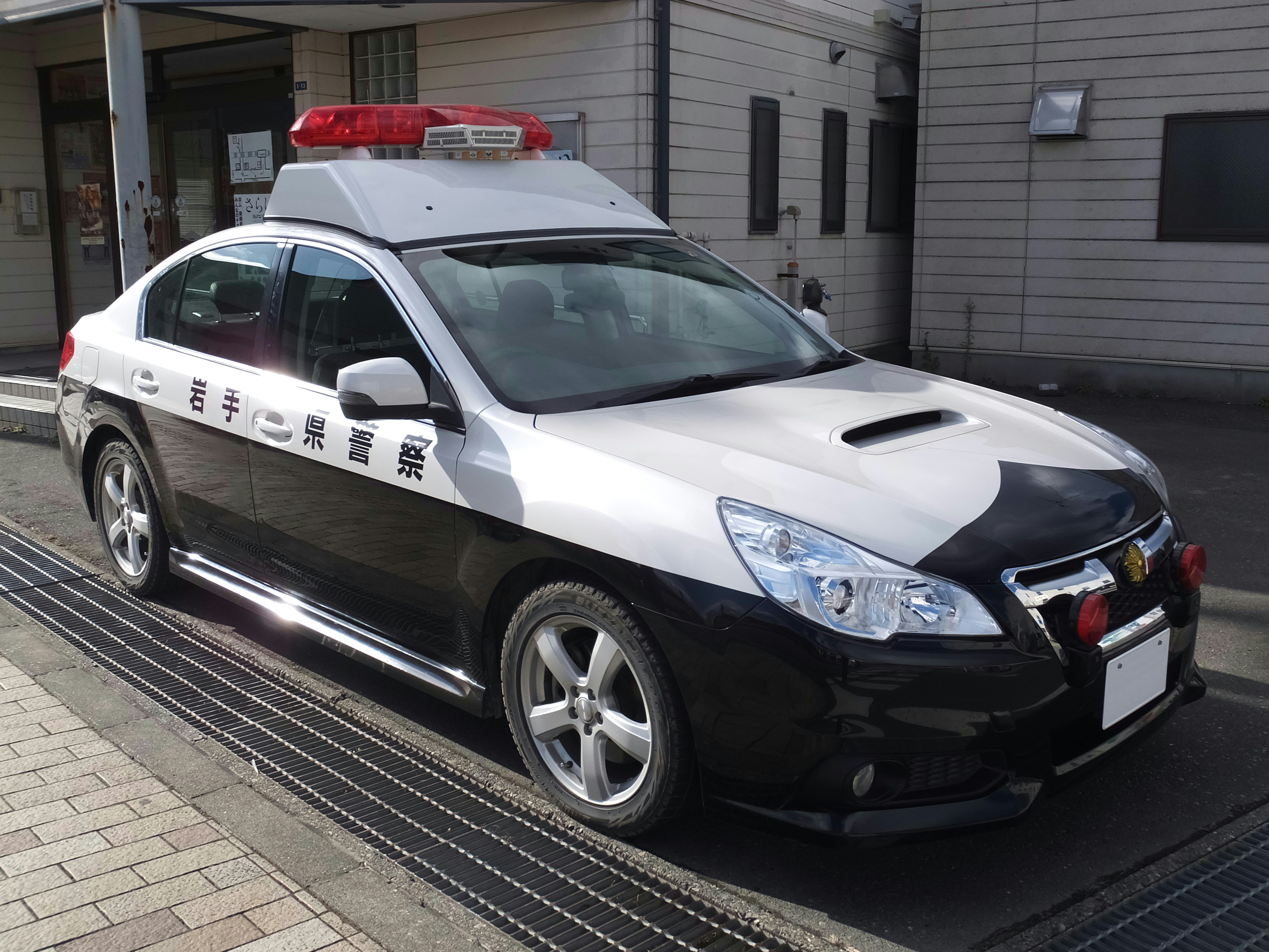 Vehicle of Iwate Prefectural Police. Brand by Subaru Legacy BM (5th Gen).